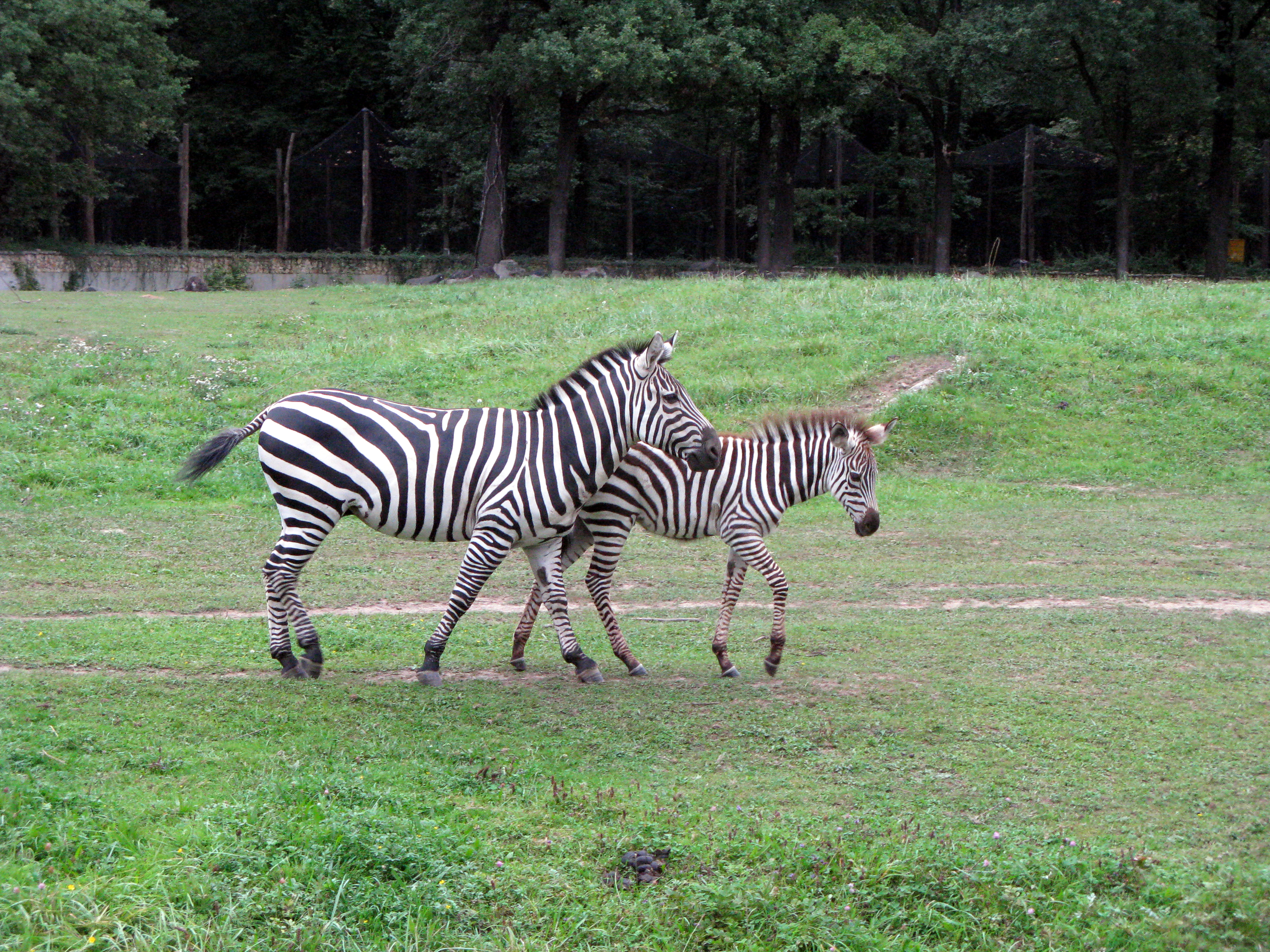 Grant's Zebra in Zoo Opole